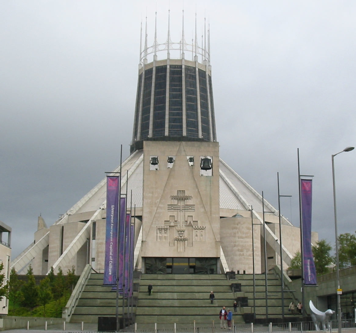 Liverpool